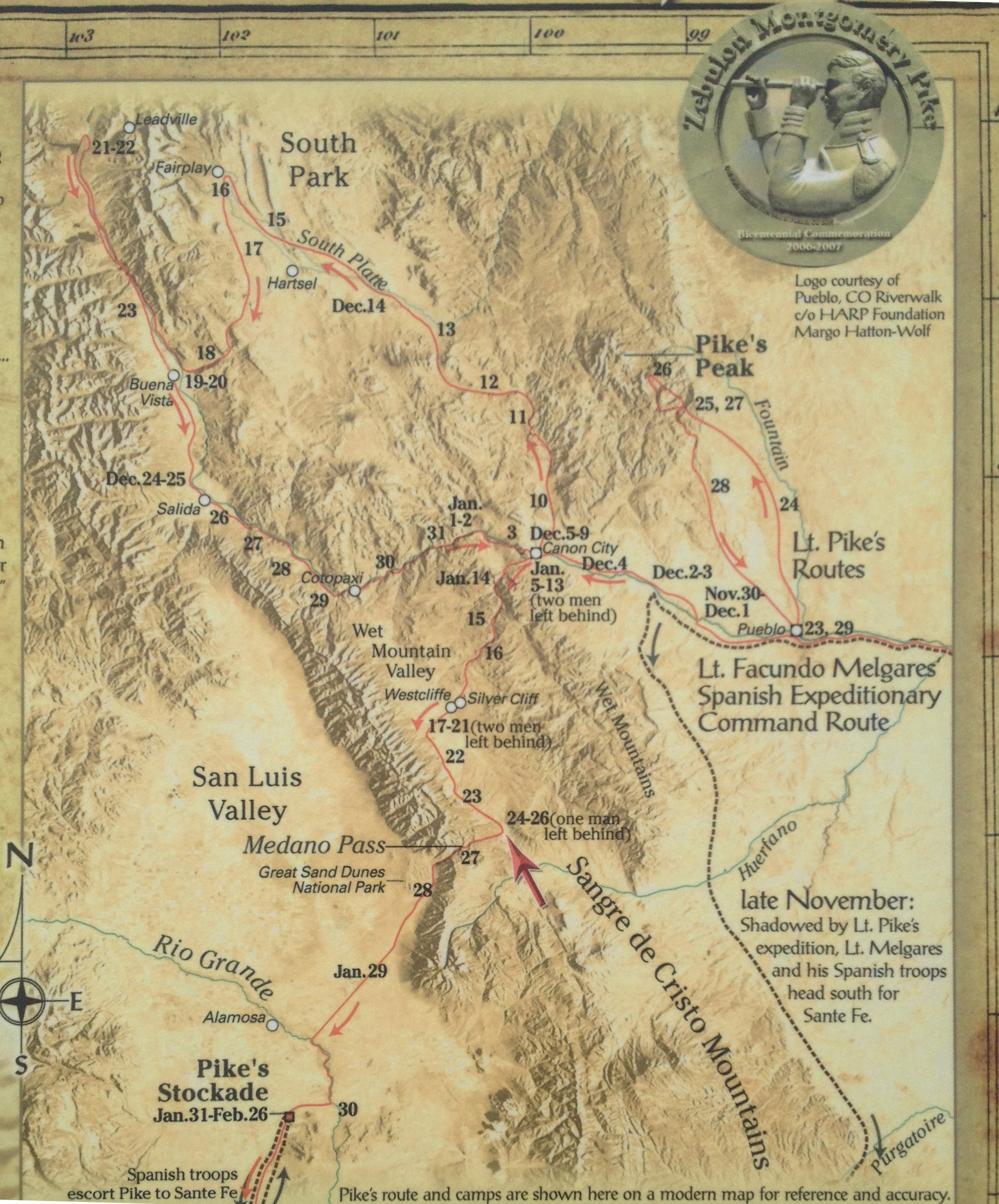 Photo of 1806-07 Lt. Zebulon Pike's Southwestern Expedition wayside marker